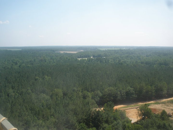 Typical Jenkins County landscape, in Georgia, USA